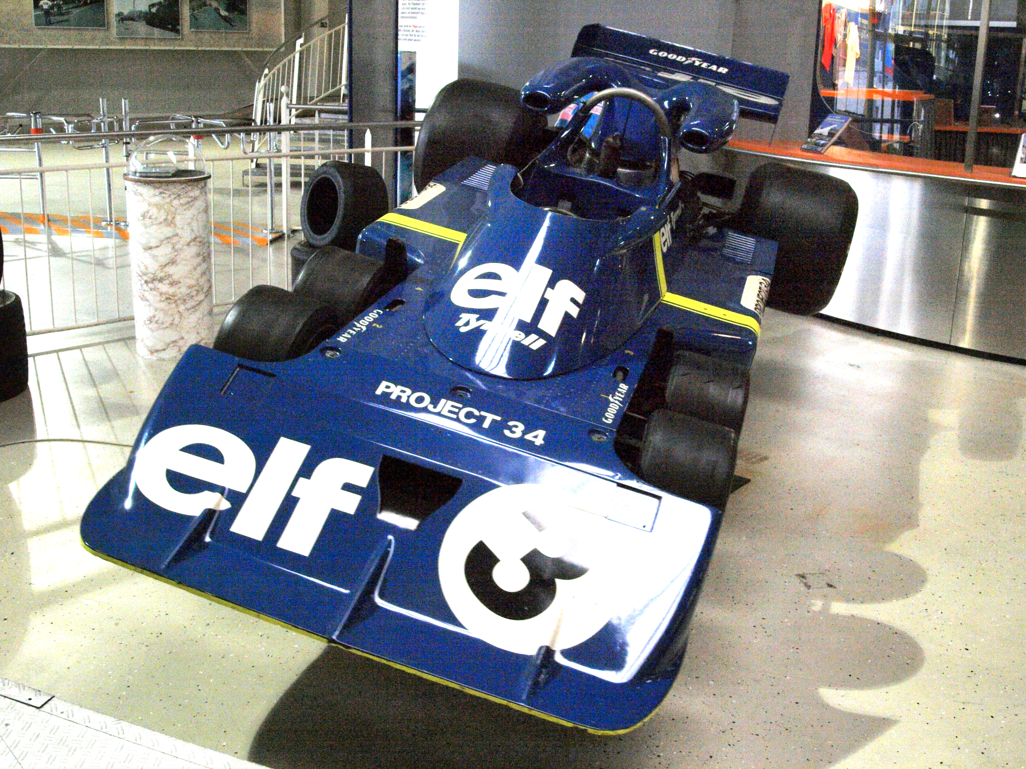 Tyrrell P34 six wheel